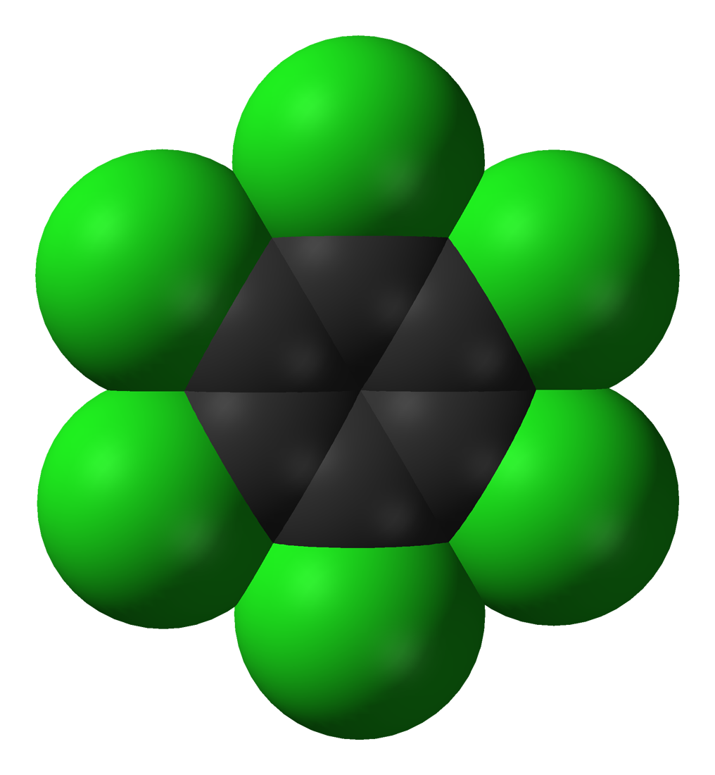 Space-filling model of the hexachlorobenzene molecule, C6Cl6.